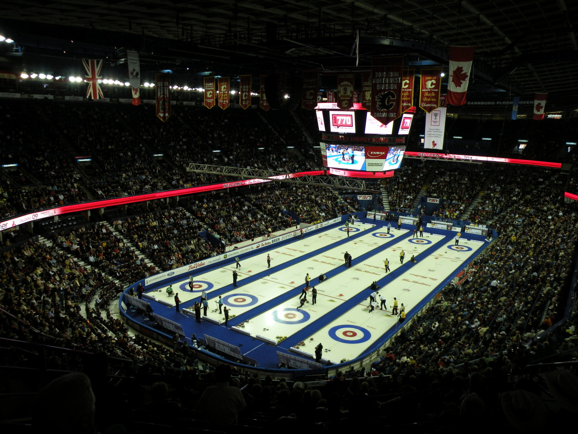 The 2009 Tim Hortons Brier at the Pengrowth Saddledome in Calgary, March 12, 2009.